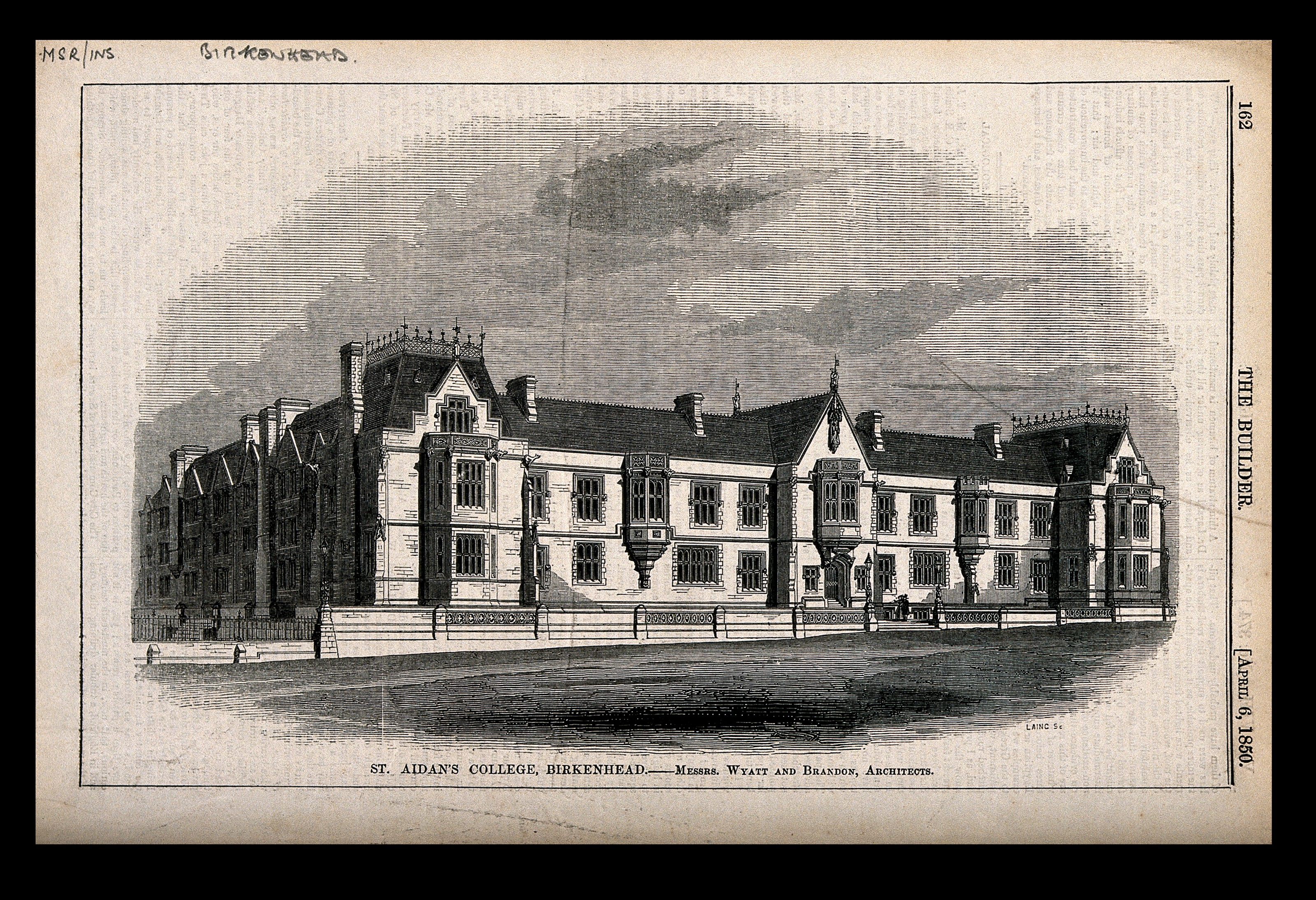 St. Aidan's college, Birkenhead. Wood engraving by J. Laing. Iconographic Collections Keywords: St Aidan's College (Birkenhead); Thomas Henry Wyatt; John Joseph Laing; David Brandon